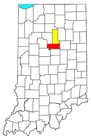 Locator map of the Kokomo-Peru Combined Statistical Area in the northern part of the U.S. state of Indiana. The two components of the CSA are colored separately: Kokomo Metropolitan Statistical Area: red Peru Micropolitan Statistical Area: yellow